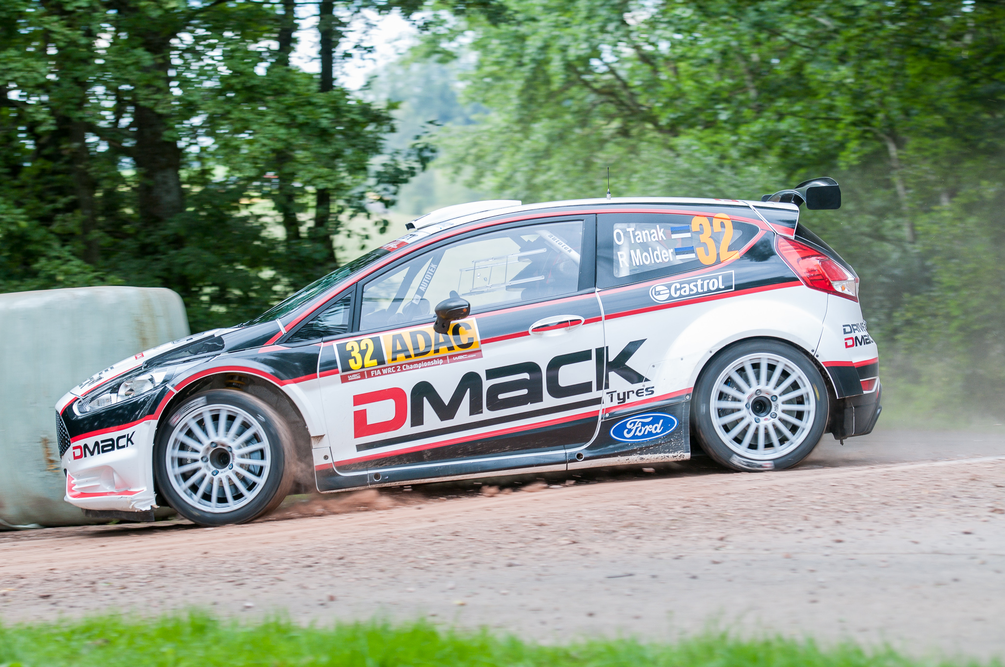 ADAC Rallye Deutschland 2014,Drive Dmack,FIA,FIA World Rally Championship,Ford Fiesta R5,Motorsport,Ott Tanak,Ott Tänak,Raigo Molder,Rally,Rallye,SS 5,WP 5,WRC 2,Waxweiler 2